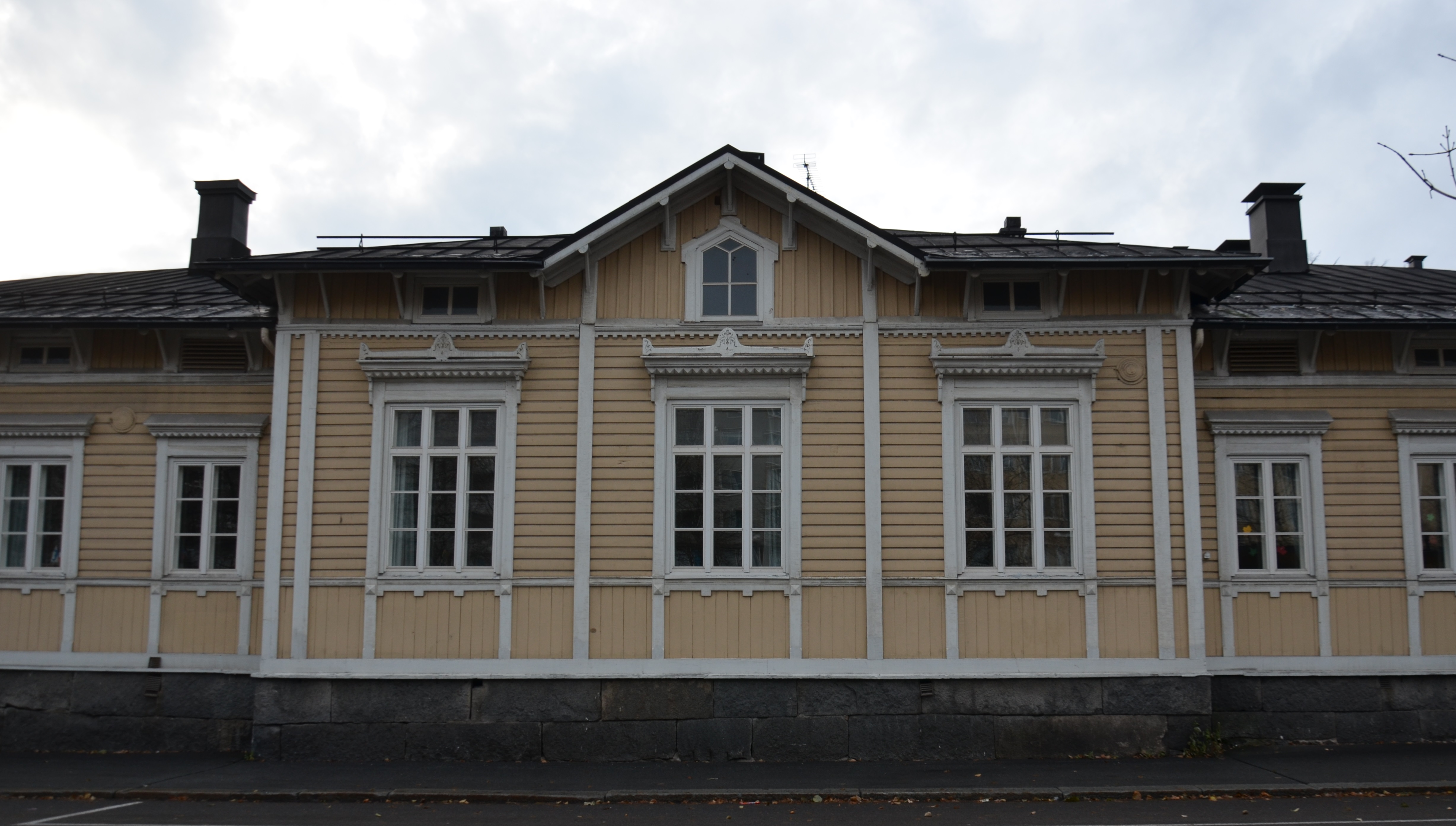 Annex till Alexanderskolan Tammerfors